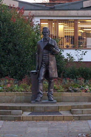 The Benjamin Brierley statue, in Failsworth, Greater Manchester, England.